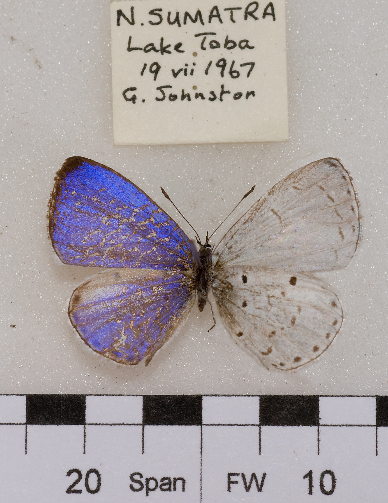 Udara selma elothales, male, set specimen, Sumatra